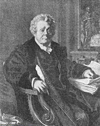 French statesman Adolphe Crémieux. Image from the Jewish Encyclopedia, in the public domain as it was published between 1901 and 1906